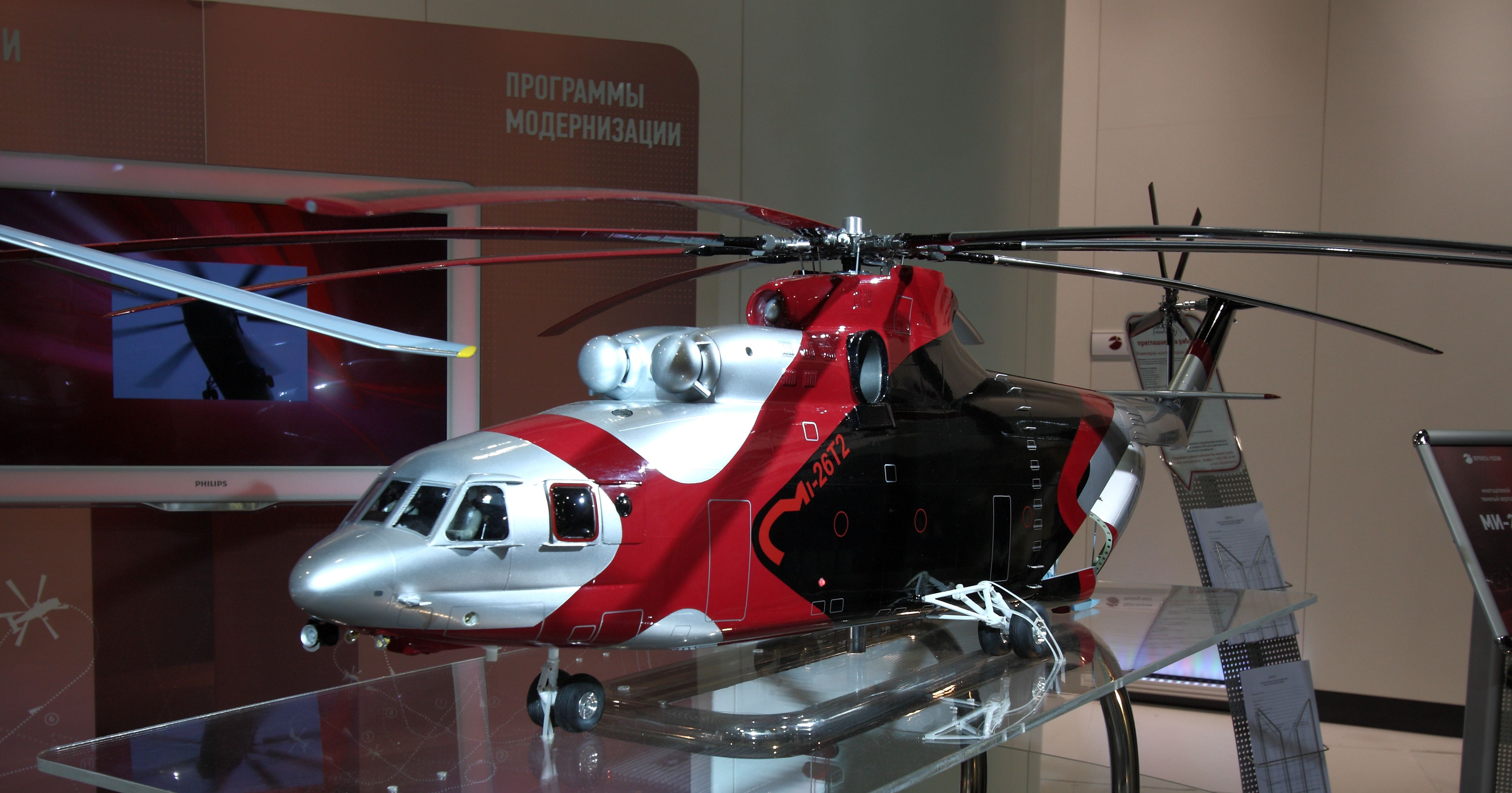 Helicopters models (The international aerospace salon MAKS-2011)